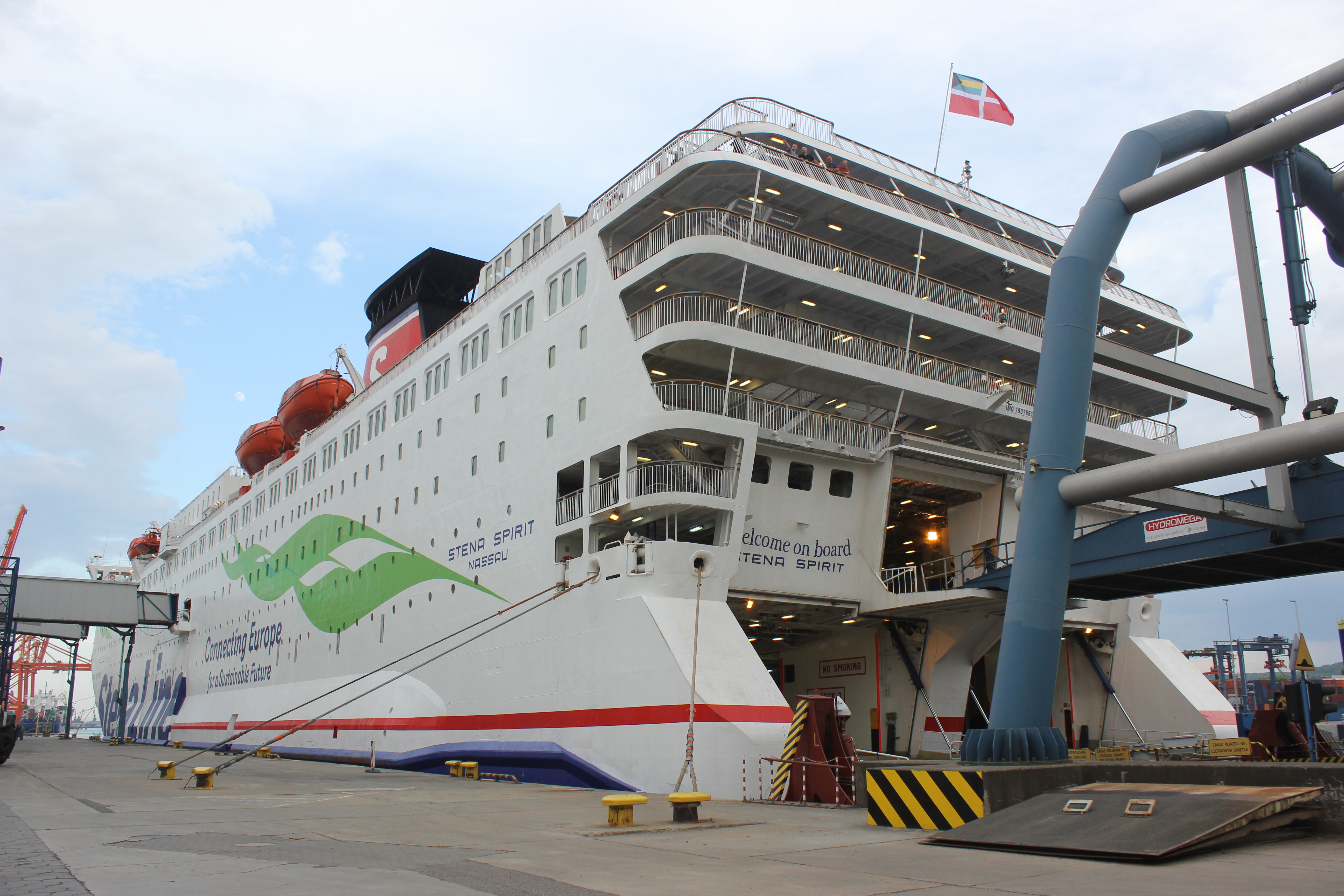 Gdynia - ship Stena Spirit